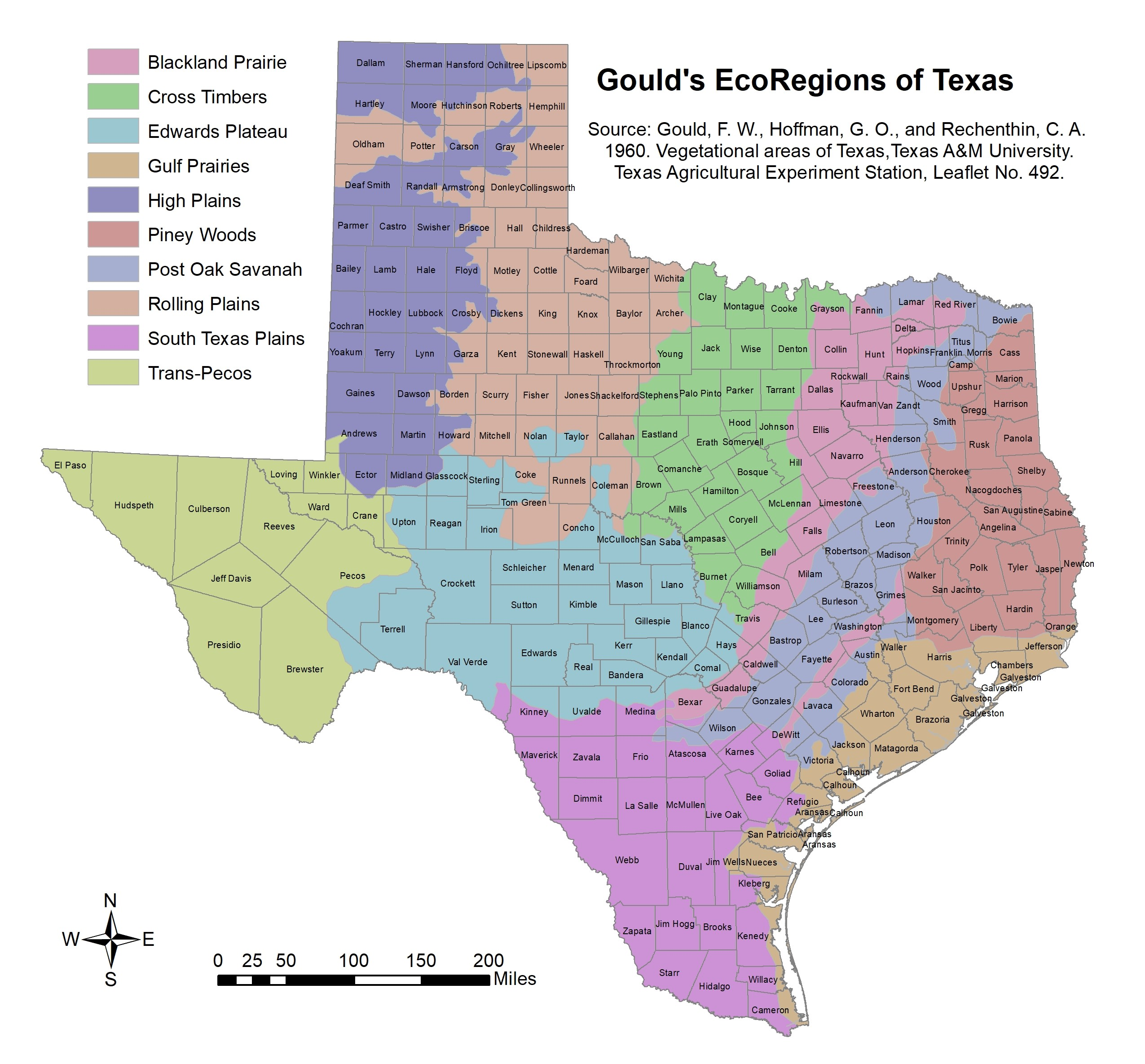 Ecological regions in Texas from Texas Parks and Wildlife Dept. GIS Lab